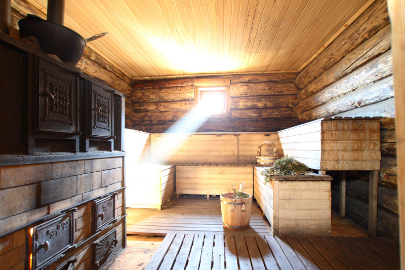 Typical Russian Banya